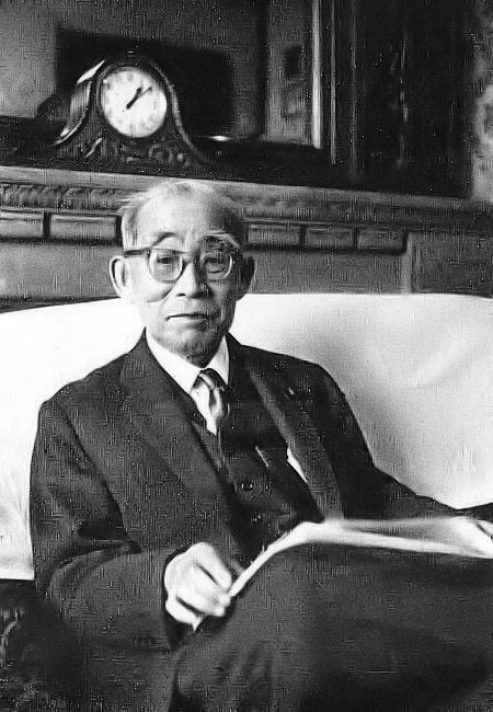 Ichiro Kiyose